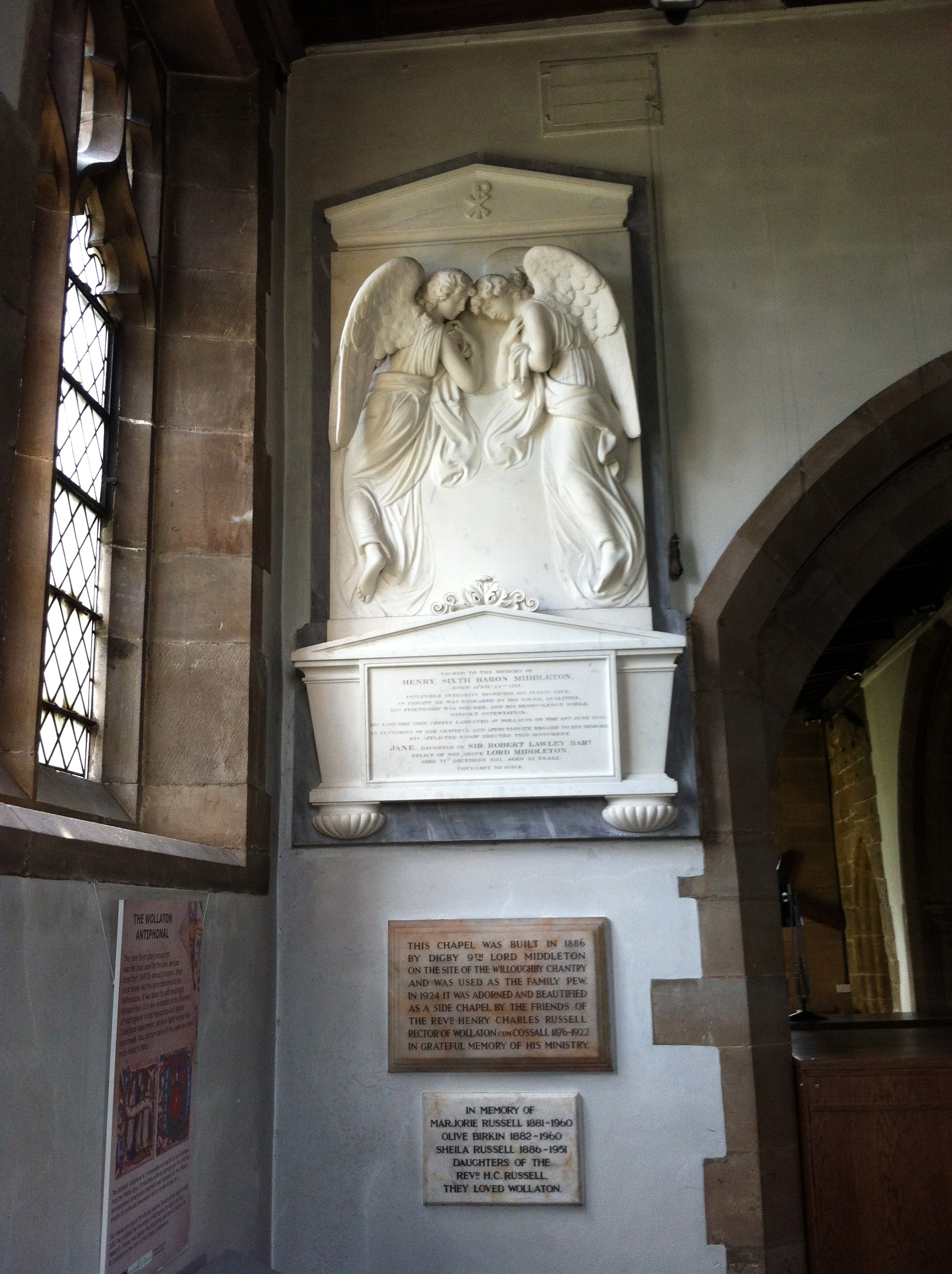 Memorial in St Leonard's Church, Wollaton to Henry, 6th Baron Middleton by Sir R Westmacott. Underneath a plaque with inscription as follows: "This chapel was built in 1886 by Digby, 9th Lord Middleton on the site of the Willoughby Chantry and was used as the family pew. In 1924 it was adorned and beautified as a side chapel by the friends of the Revd Henry Charles Russell, Rector of Wollaton Cum Cossall 1876 - 1922 in grateful memory of his ministry". Underneath a plaque with inscription as follows: "In memory of Marjorie Russell 1881 - 1960, Olive Birkin 1882 - 1960, Sheila Russell 1886 - 1951, daughters of the Revd H.C. Russell. They loved Wollaton".